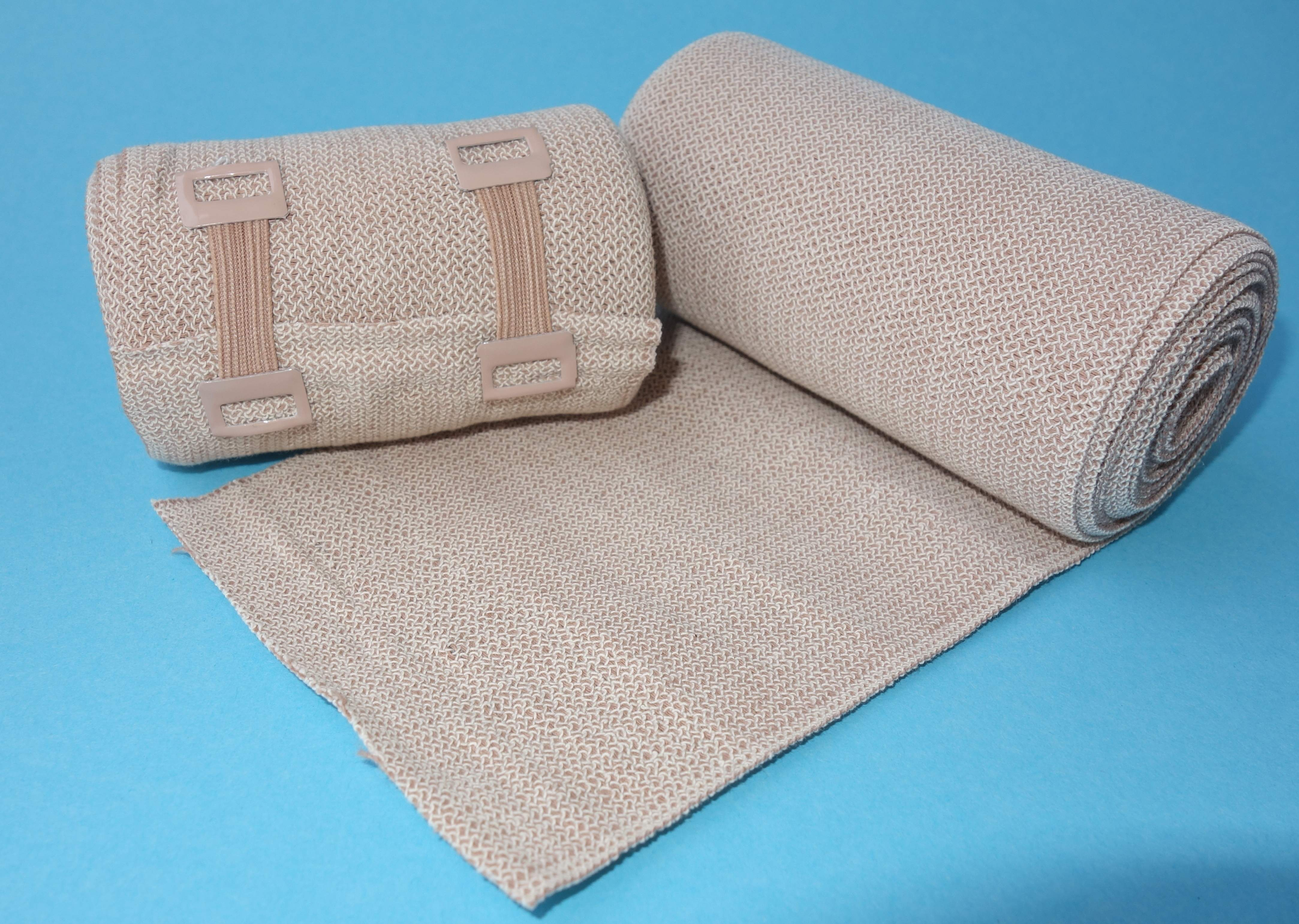 Short stretch bandages for compression therapy